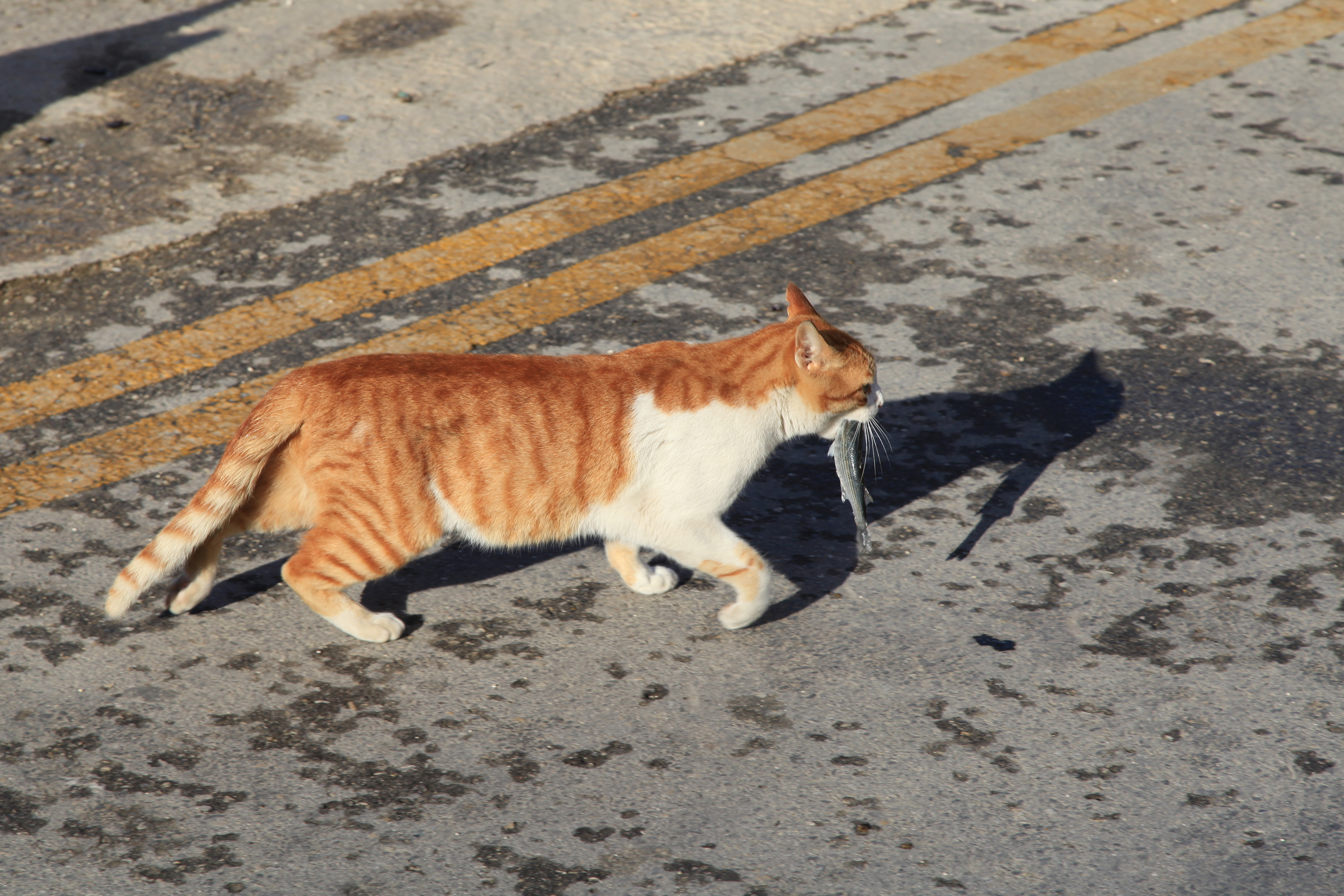 Ferry harbour at Triq il-Lanċa in Valletta, Malta